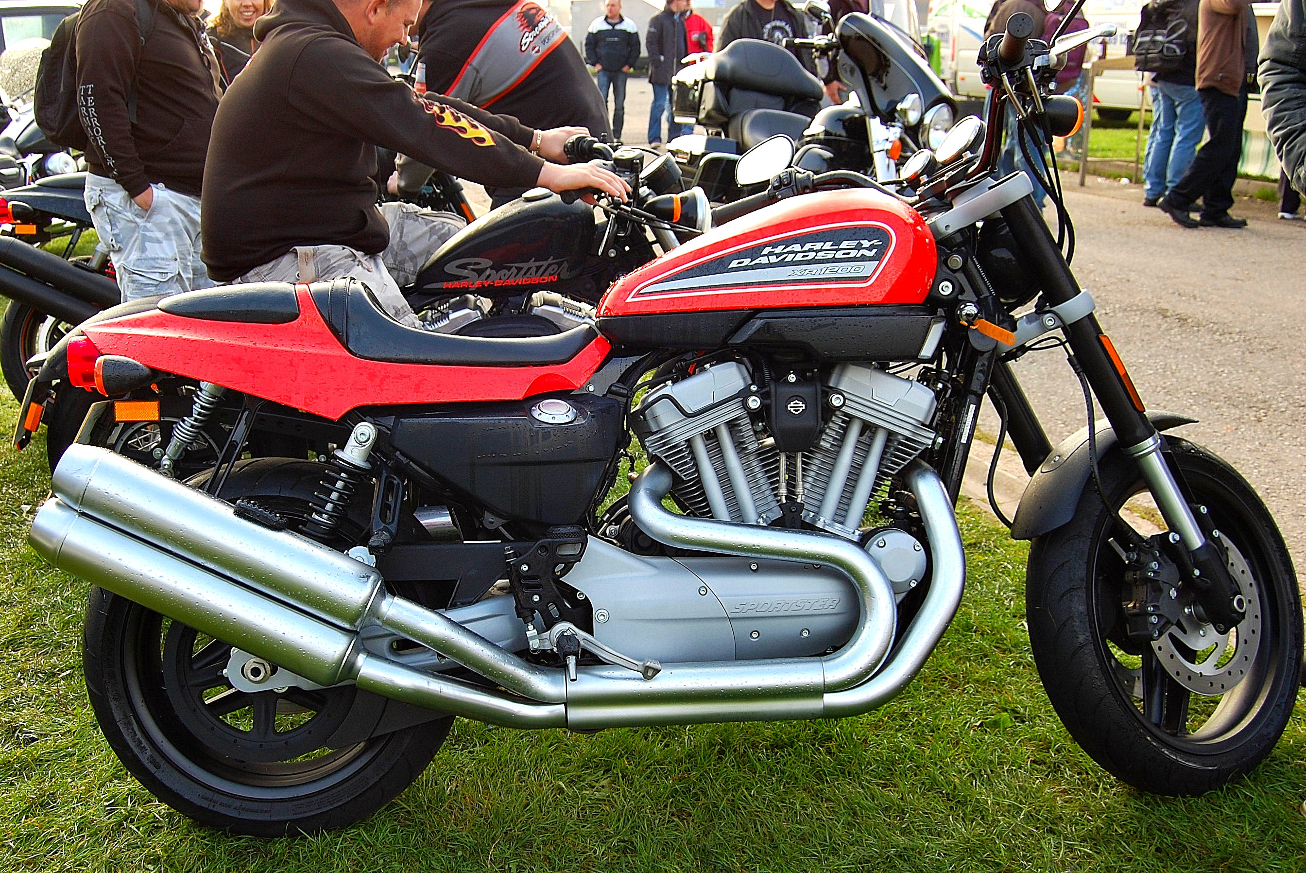 In the 2008 model year, Harley-Davidson released the XR1200 Sportster in Europe, Africa, and the Middle East. The XR1200 had an Evolution engine tuned to produce 91 bhp (68 kW), four-piston dual front disc brakes, and an aluminum swing arm. Motorcyclist featured the XR1200 on the cover of its July 2008 issue and was generally positive about it in their "First Ride" story, in which Harley-Davidson was repeatedly asked to sell it in the United States.[92] One possible reason for the delayed availability in the United States was the fact that Harley-Davidson had to obtain the "XR1200" naming rights from Storz Performance, a Harley customizing shop in Ventura, Calif.[93] The XR1200 was released in the United States in 2009 in a special color scheme including Mirage Orange highlighting its dirt-tracker heritage. The first 750 XR1200 models in 2009 were pre-ordered and came with a number 1 tag for the front of the bike, autographed by Kenny Coolbeth and Scott Parker and a thank you/welcome letter from the company, signed by Bill Davidson.